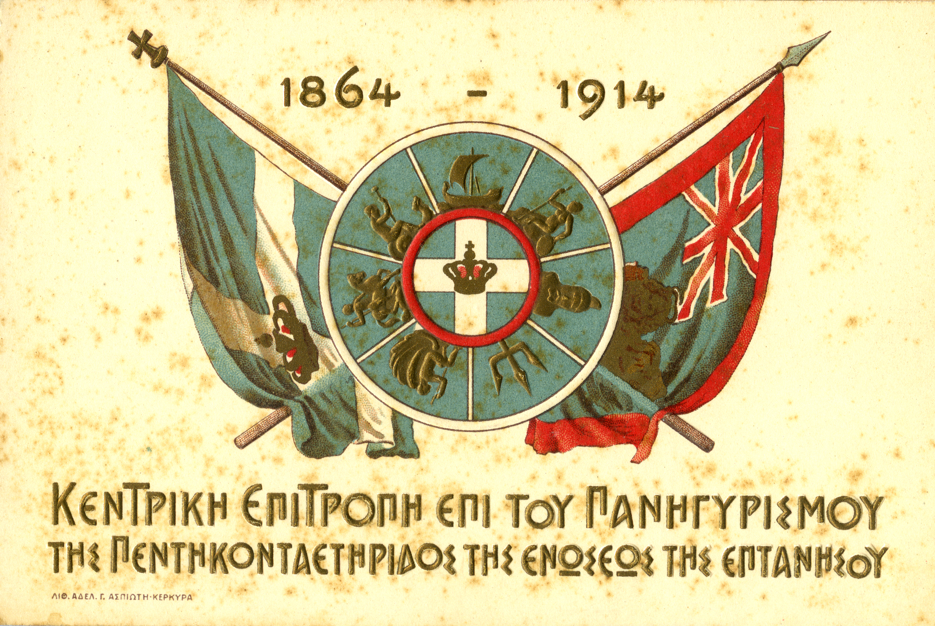 5oth anniversary of the Union of the Eptanisos with Greece. Postcard published on the occasion of the 5oth anniversary of the Union of the Ionian Islands with Greece.